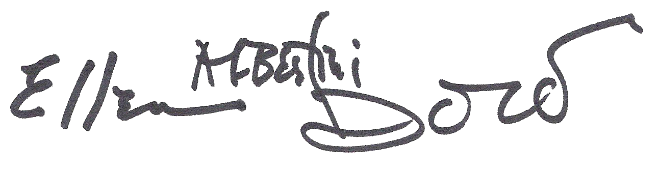 Ellen A. Dow's signature